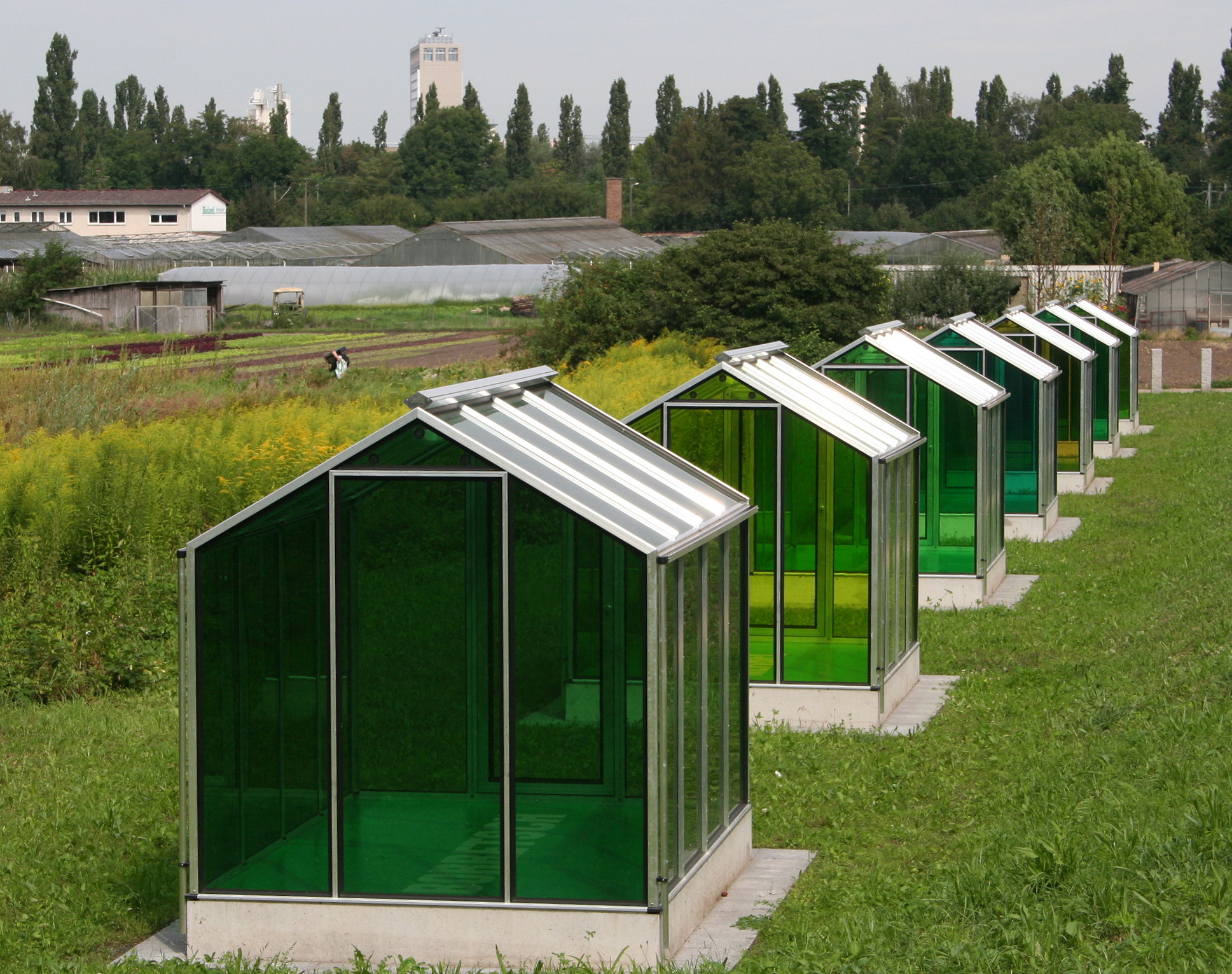 A monument for Green Sauce made by german artist Olga Schulz in the district Oberrad of Frankfurt am Main in Germany.